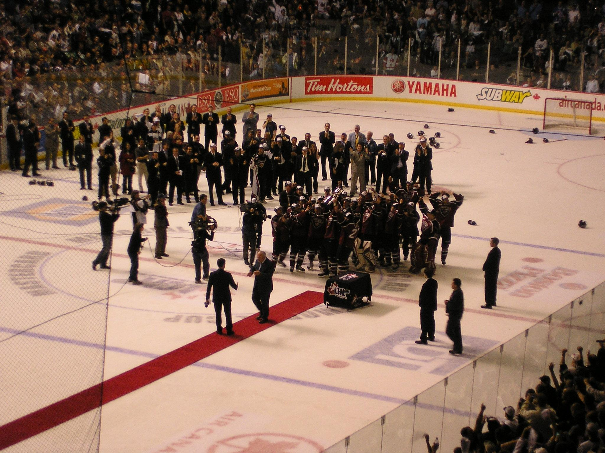 Vancouver Giants players celebrating their championship in the 2007 Memorial Cup championship game at the Pacific Coliseum in Vancouver, British Columbia. May 27, 2007